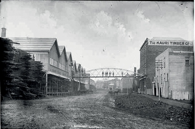 Auckland Timber Company Building (right), after its takeover by the Kauri Timber Company in 1888, looking east. A wire suspension bridge hosted rails to allow the transfer of goods from the factory to the mill on trollies. Image: courtesy of Sir George Grey Special Collections, Auckland Libraries (4-RIC127).